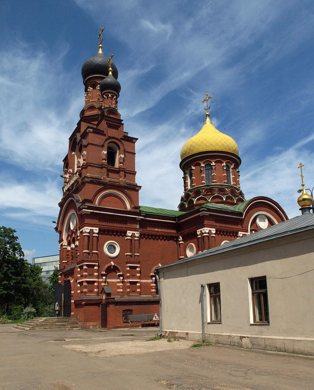 Cathedral of Novo-Alekseevsky convent in Moscow. 1891, architect: Alexander Nikiforov, 1834-1915